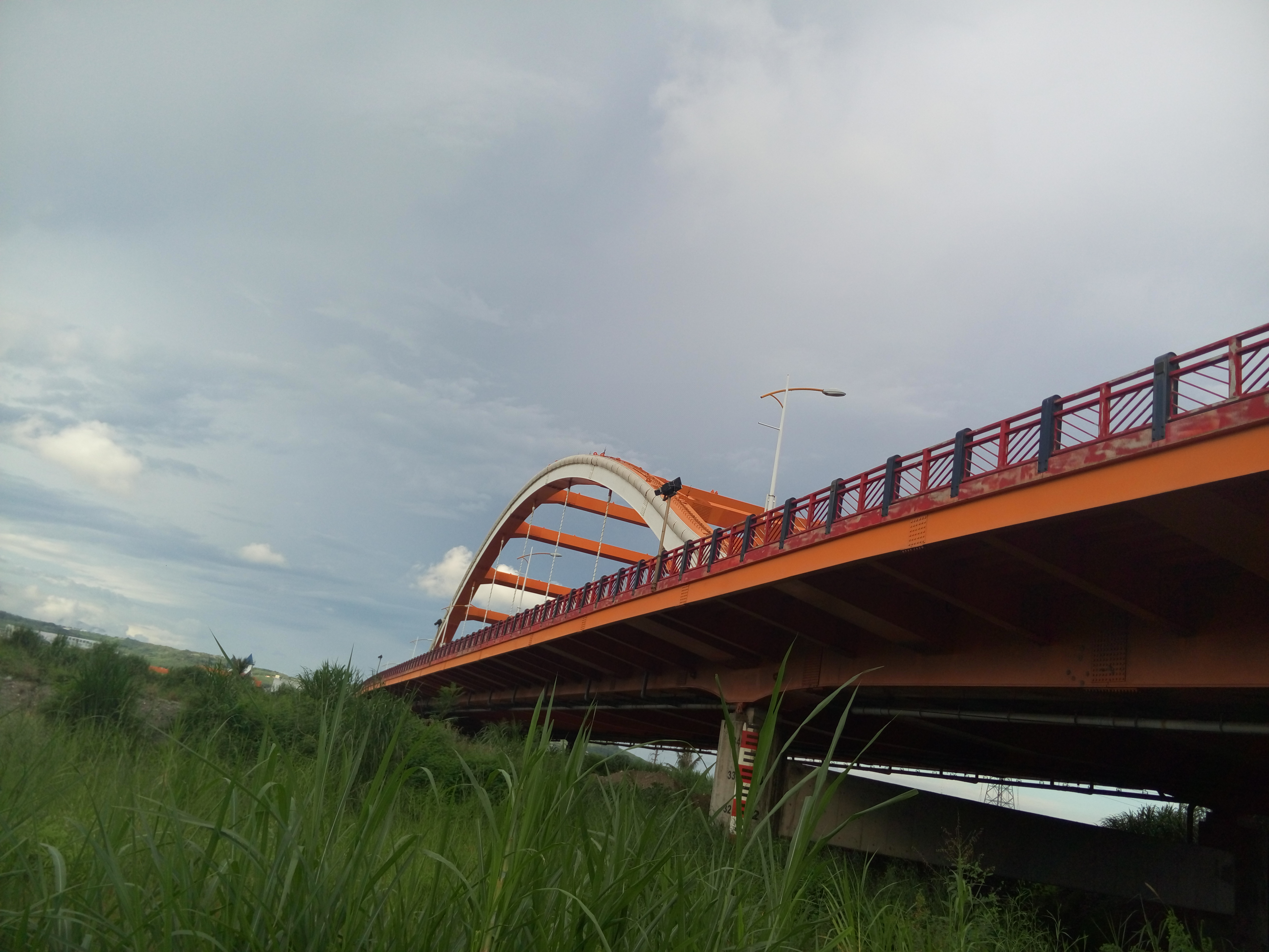 Taiwan Taitung City Ri-Kuang Bridge